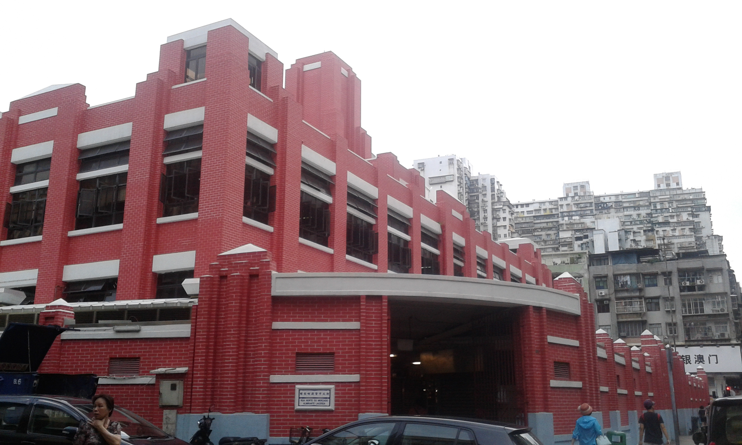 Gate of Red Market